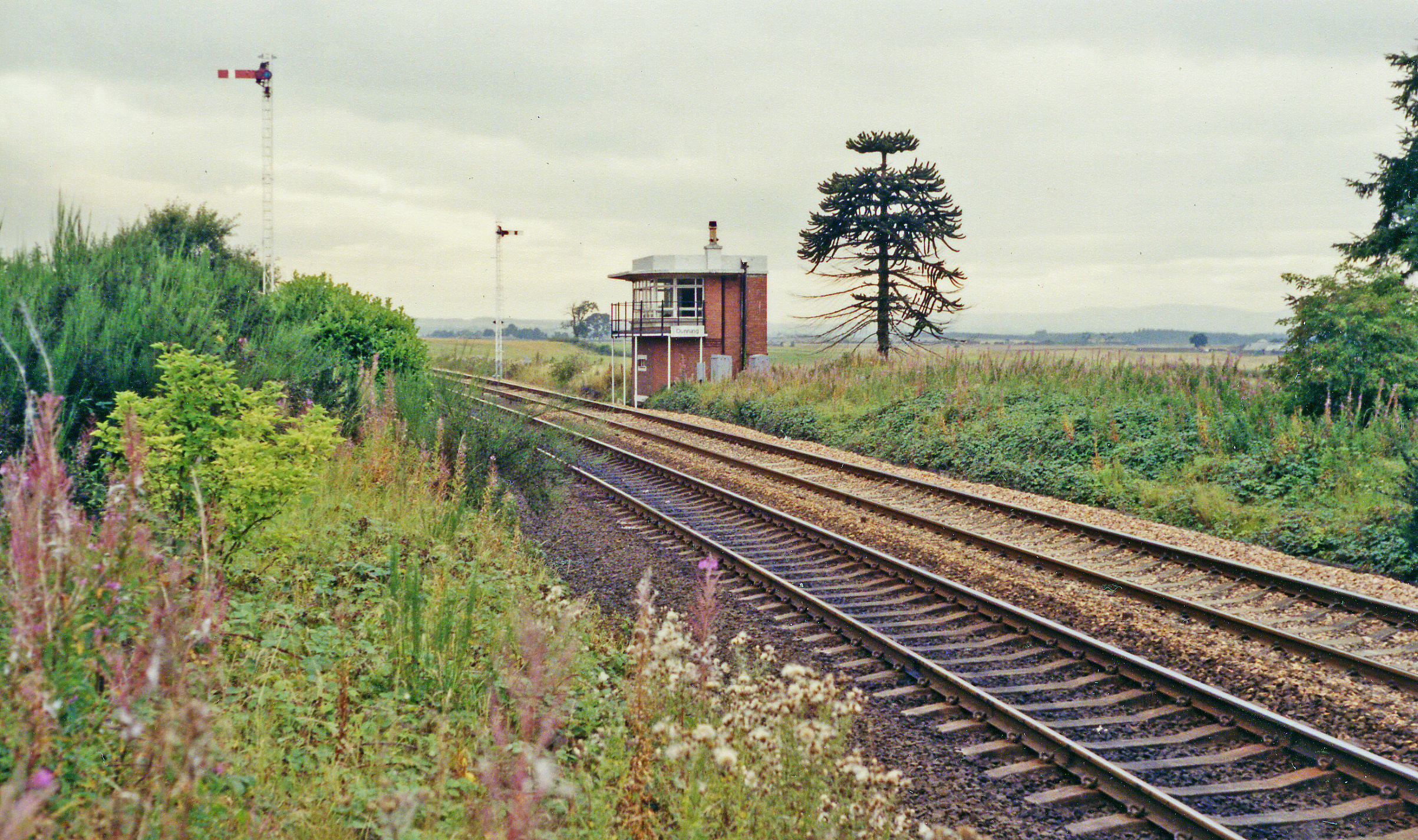 Site of former Dunning station, 1991. View Sw, towards Stirling and Glasgow: ex-Caledonian Railway Glasgow - Stirling - Perth etc. main line. The station, which was about two miles from Dunning, had been closed to passengers 11/6/56, to goods 7/9/64 - but a new signalbox seems to be provided.